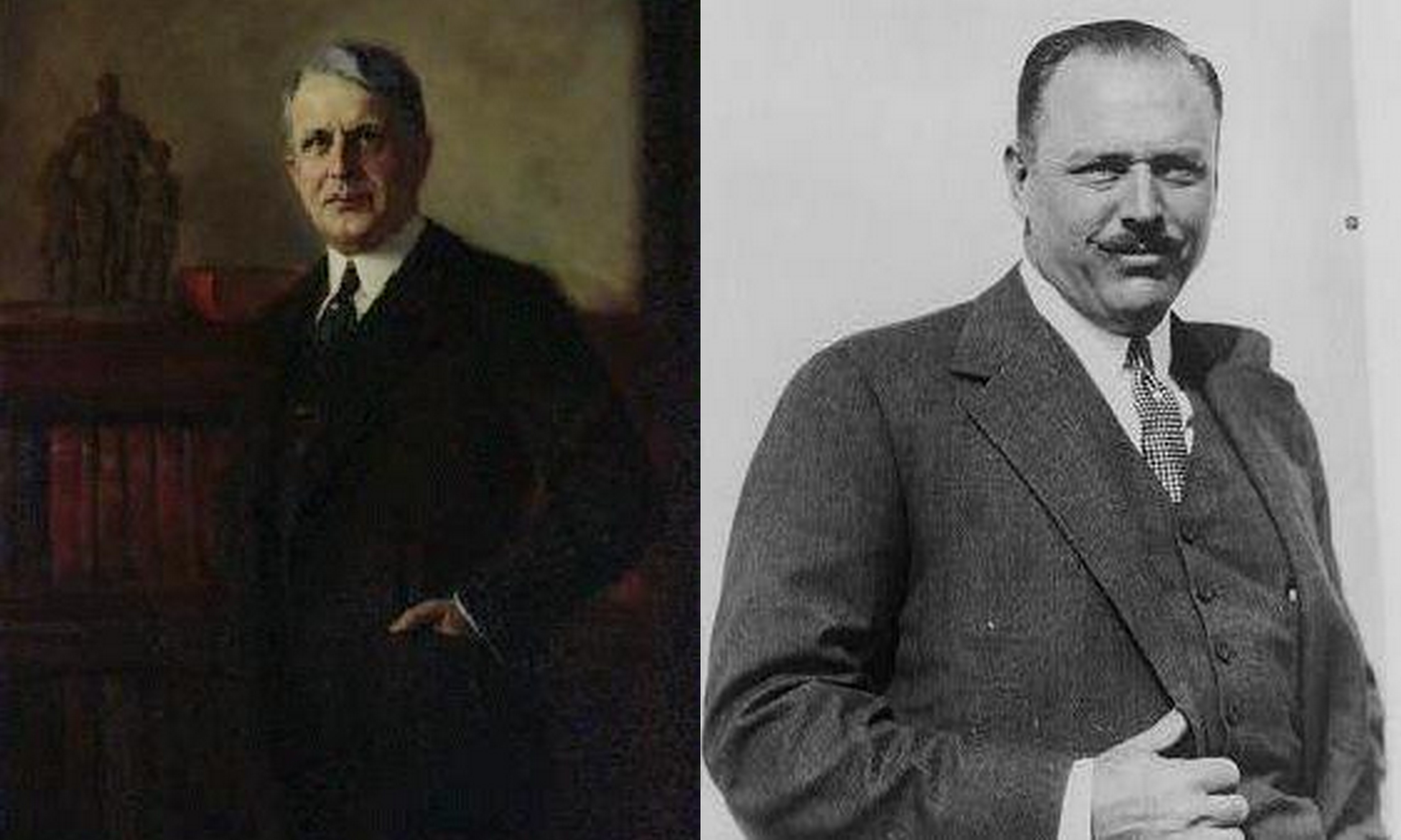 Robert L. Bacon, (1884-1938), three-quarter length portrait, standing, facing right